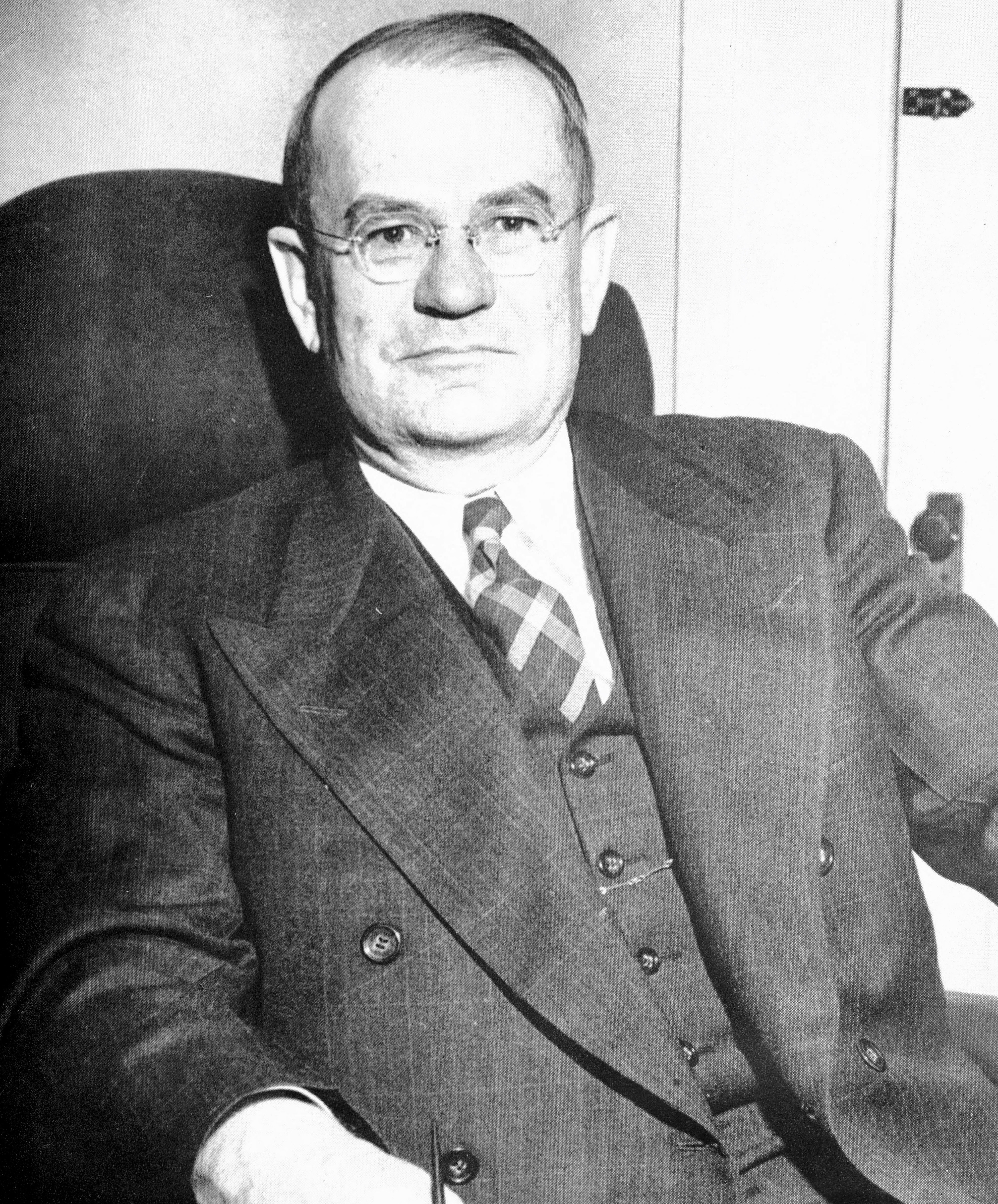 Chauncey Sparks, Governor of Alabama (1943–47)